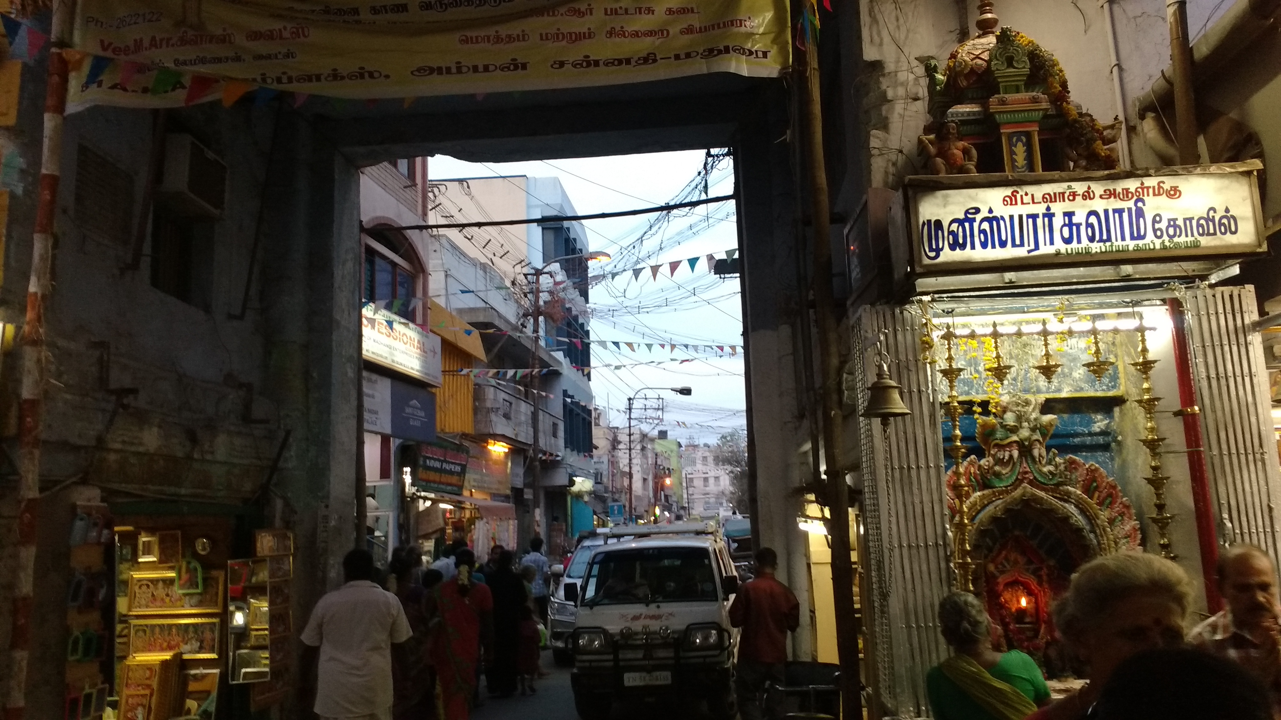 Vitta Vasal Mandapam, one of the five main gates of Madurai Meenakshi Temple